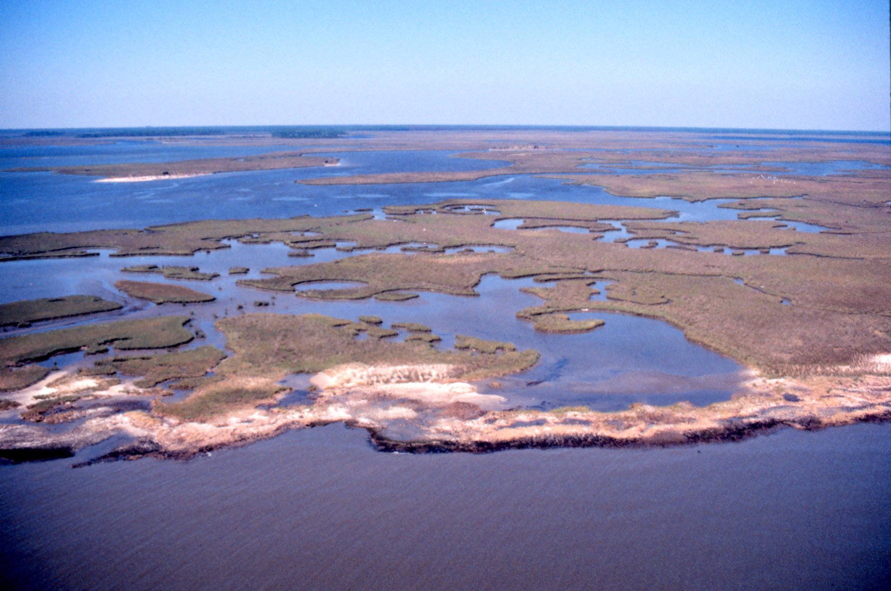 Aerial view of Grand Bay National Estuarine Research Reserve showing eroding shoreline along Rigolets. October 1998.